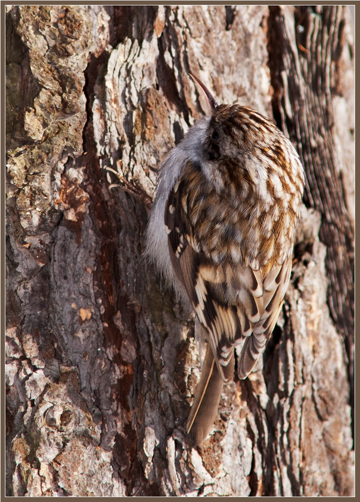 Certhia familiaris, Common treecreeper, обыкновенная пищуха